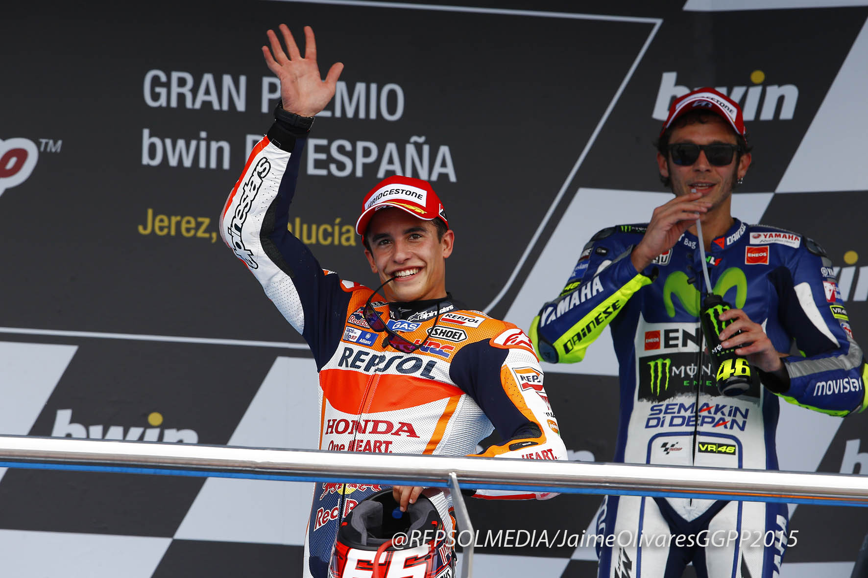 Marc Márquez, waving at the crowd on the podium after finishing in second place at the 2015 Spanish Grand Prix, with third place finisher Valentino Rossi in the back.